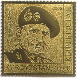 Stamp of Kyrgyzstan